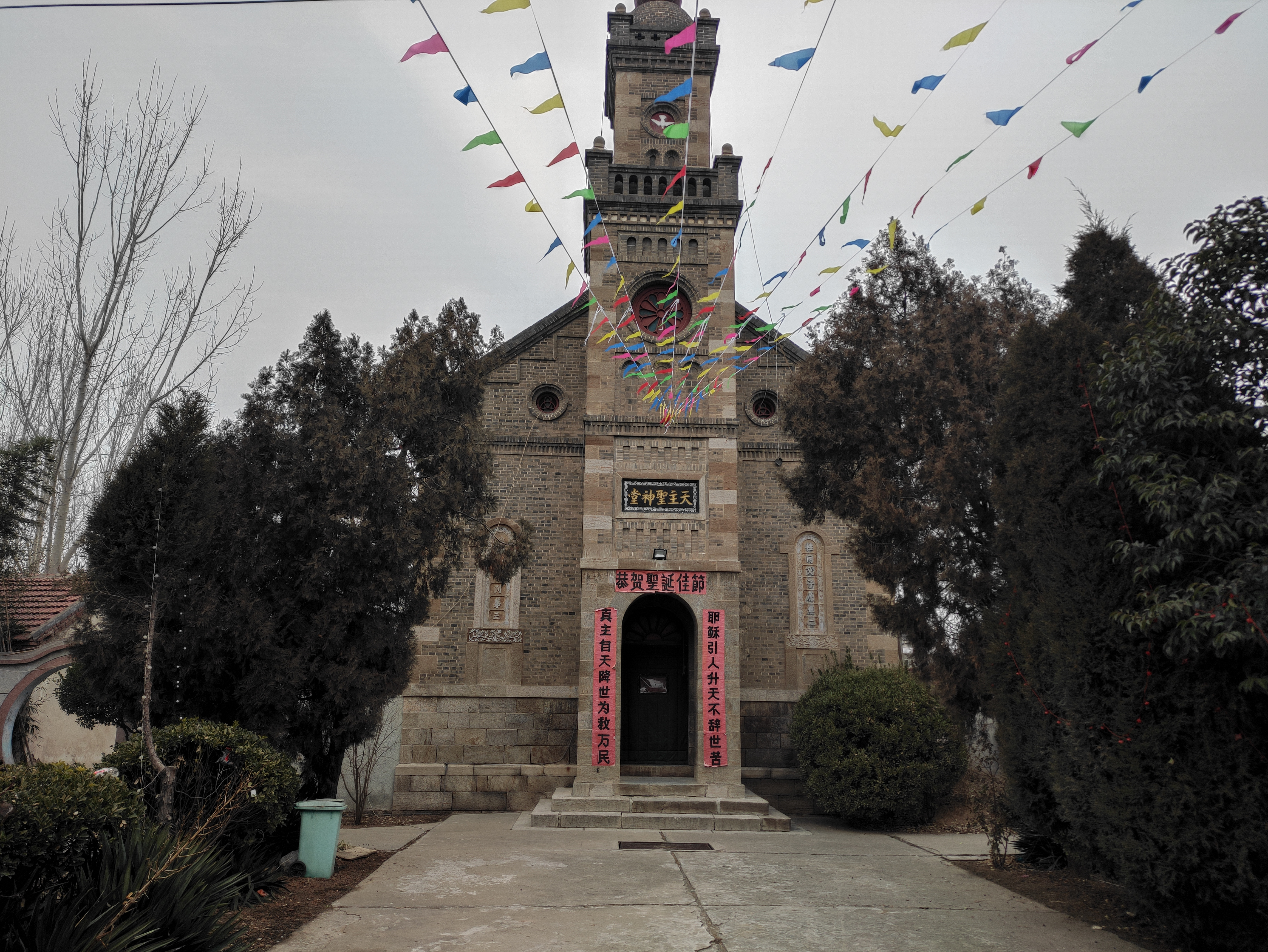 Maozhuang Catholic Church, a Catholic Church is located in Máozhuāng village, Dōngpíng Subdistrict, Dōngpíng County, Shāndōng Province, P.R. China.